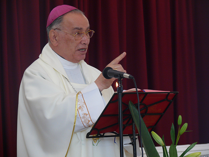 Fotografia da pregação de dom Augusto César Ferreira Silva numa missa pública